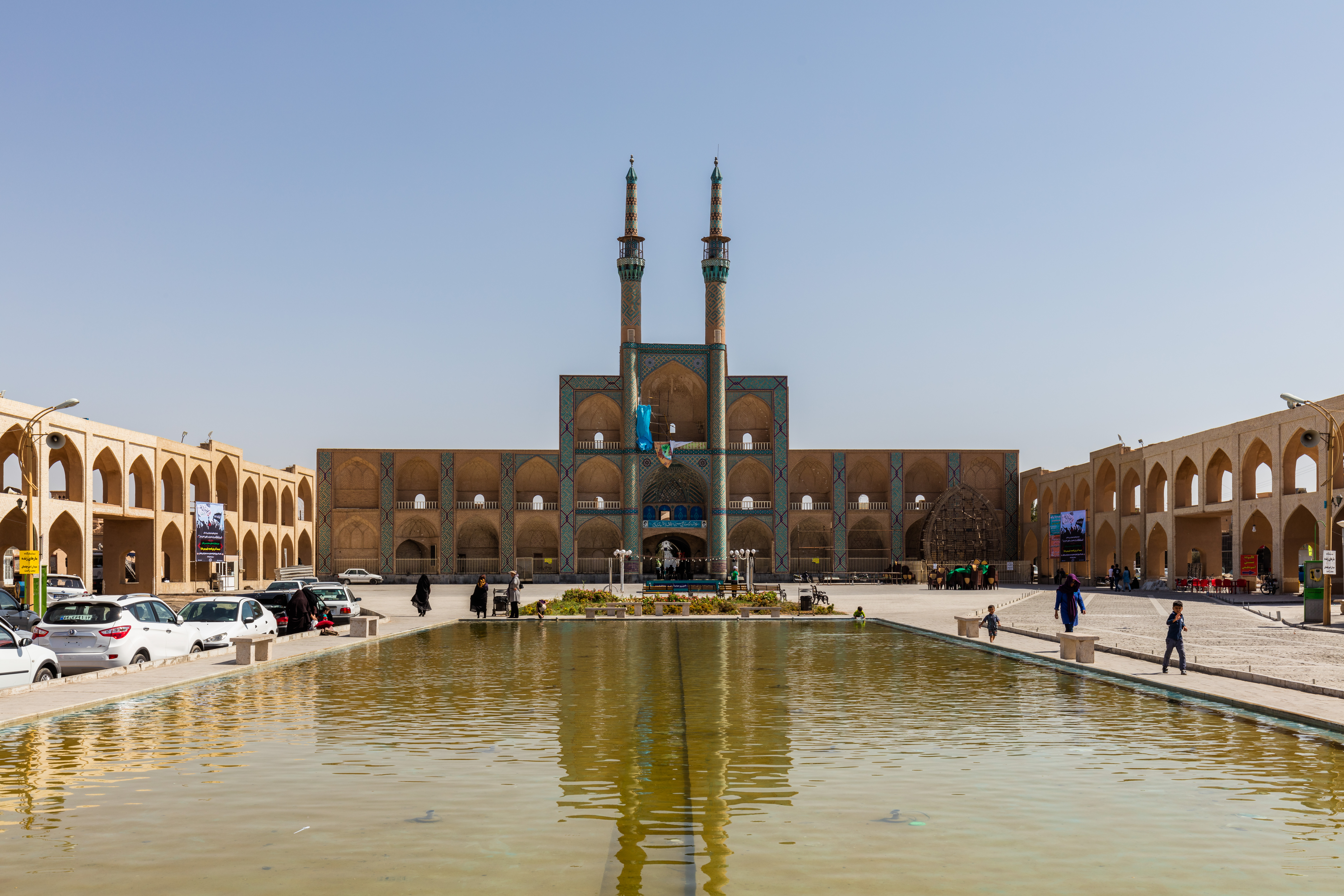 Amir Chakmaq Complex, Yazd, Iran